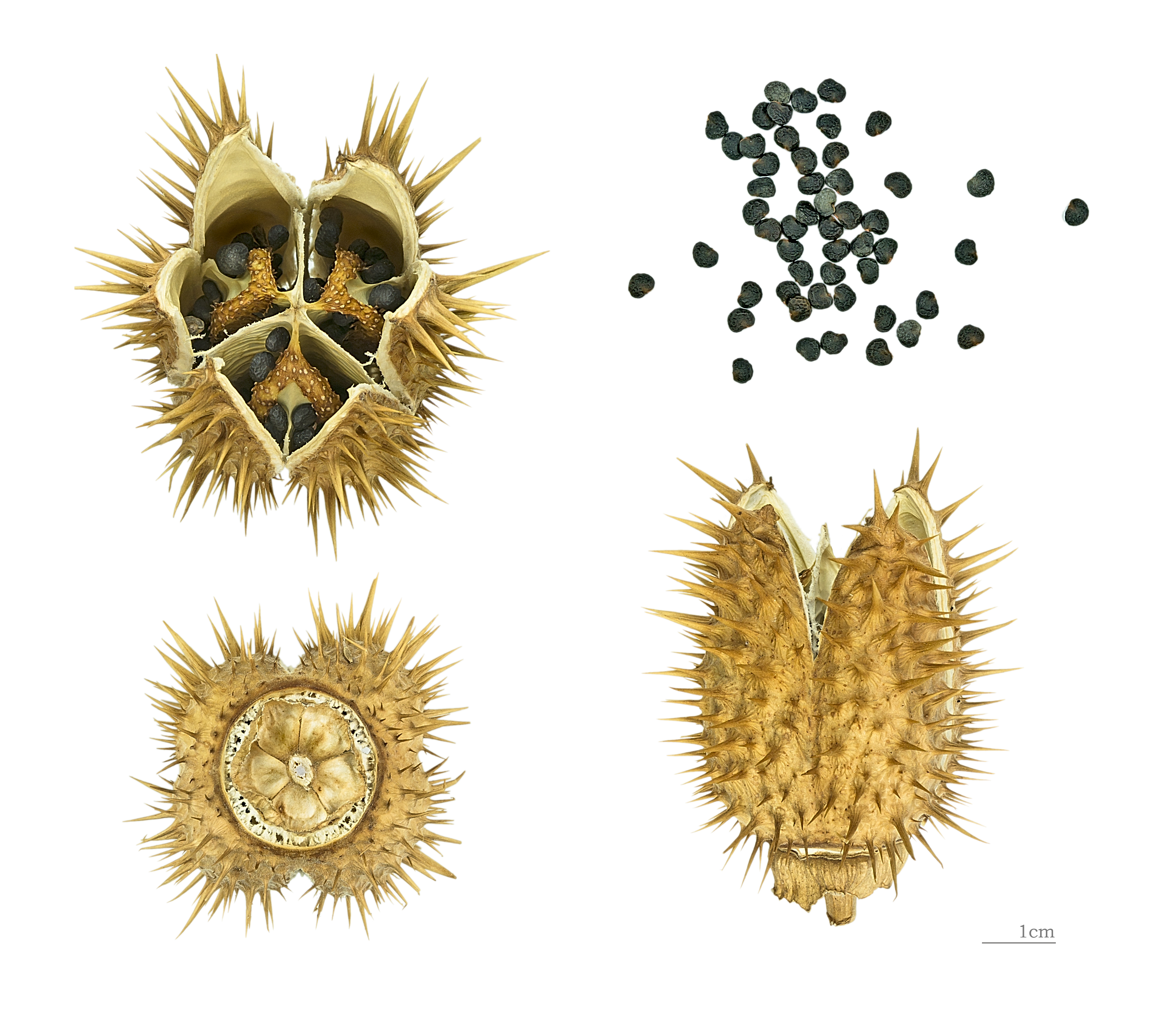 Jimson weed, fruits and seeds.